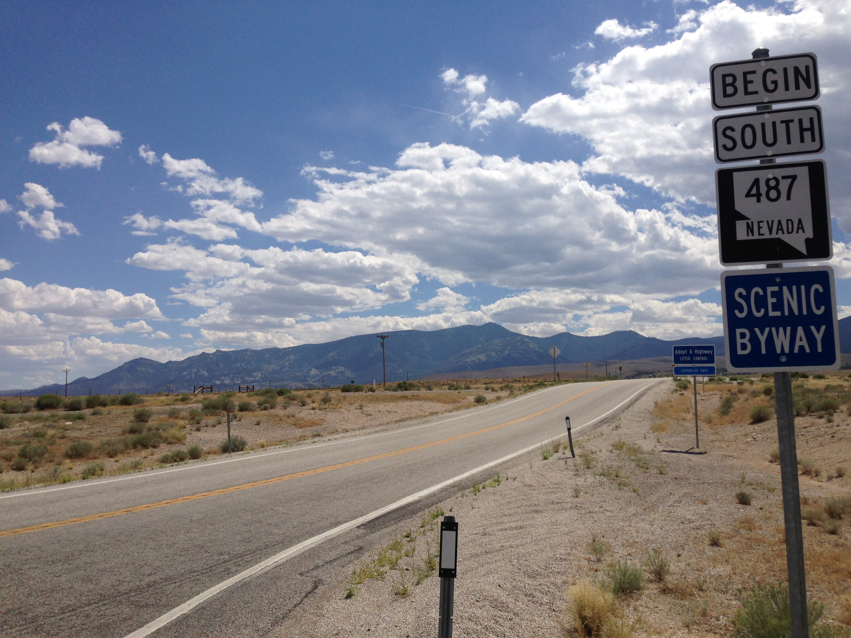 First reassurance sign along southbound Nevada State Route 487 (Baker Road) in White Pine County, Nevada